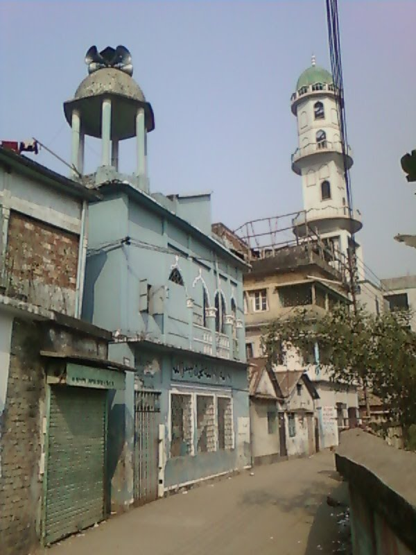 This is only for Asrafia Jame Masjid adding in Wikipedia.